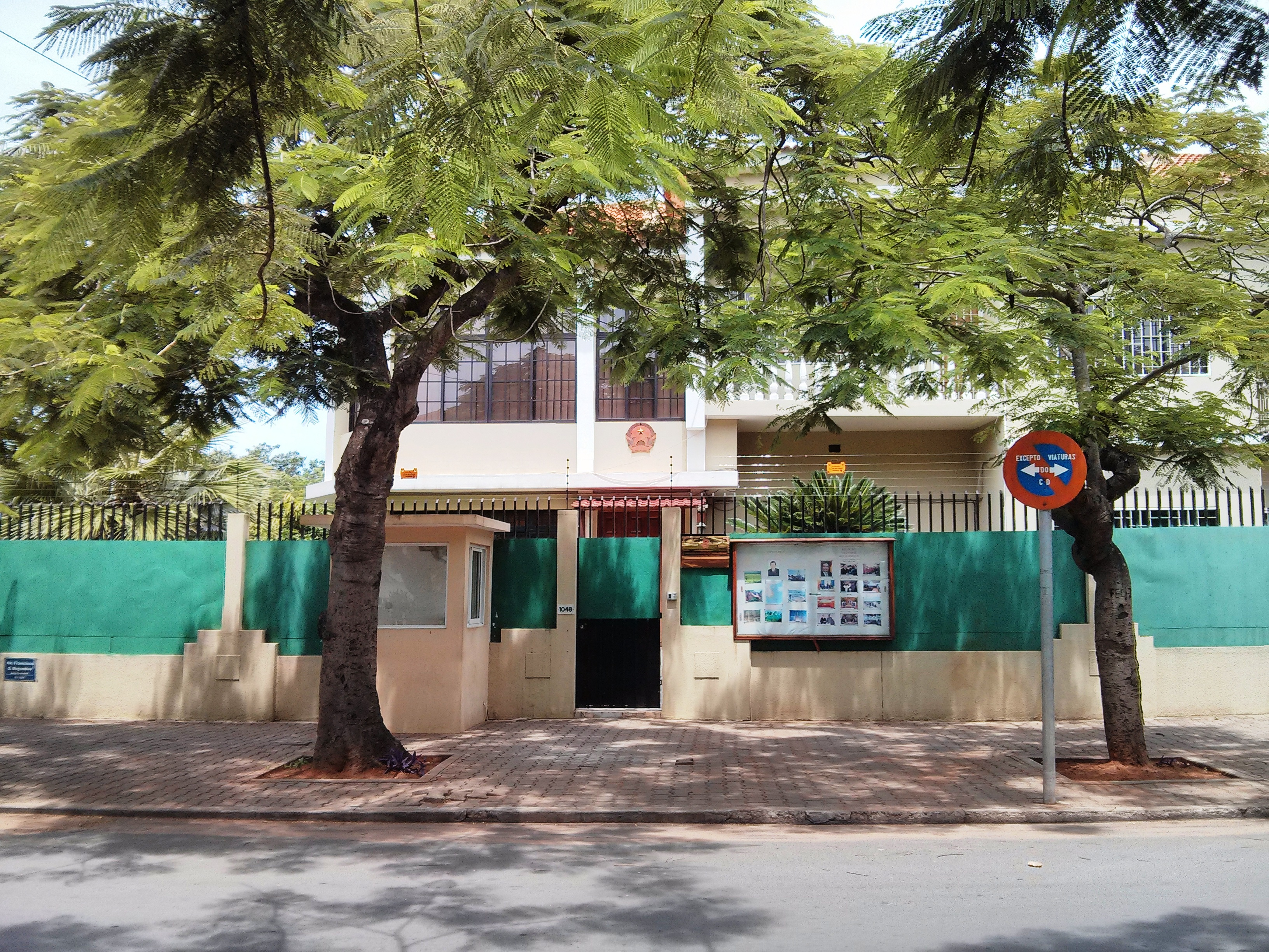 Embassy of Vietnam in Maputo, Mozambique